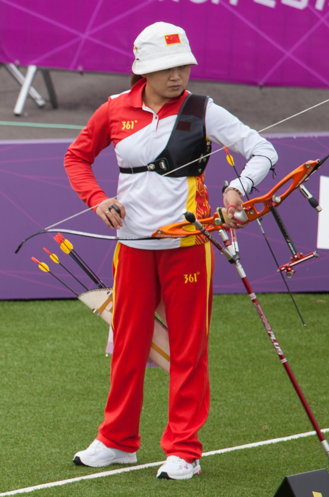 Sharon Vennard and Yan Huilian